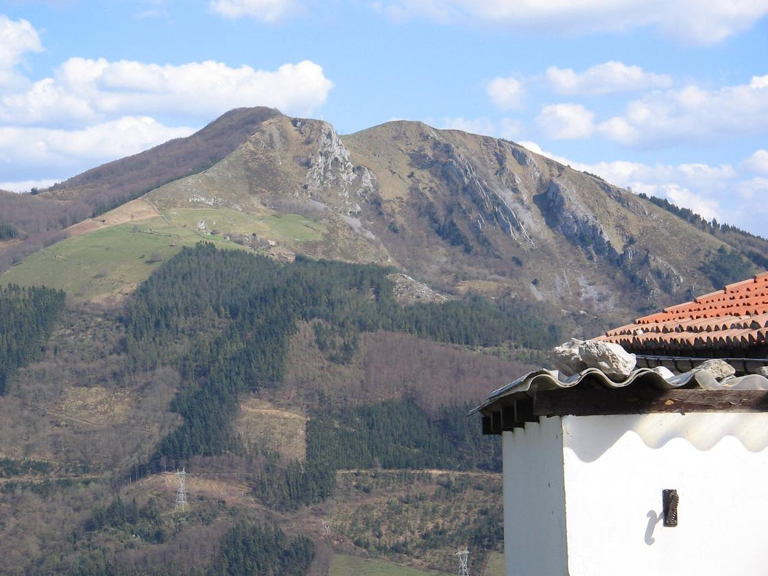 Mount Uzturre from the W